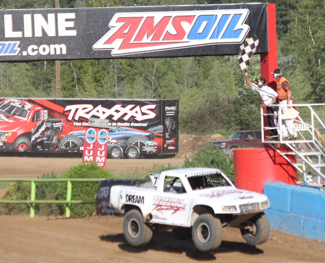 The Stadium Super Trucks vehicle of Jerrett Brooks.